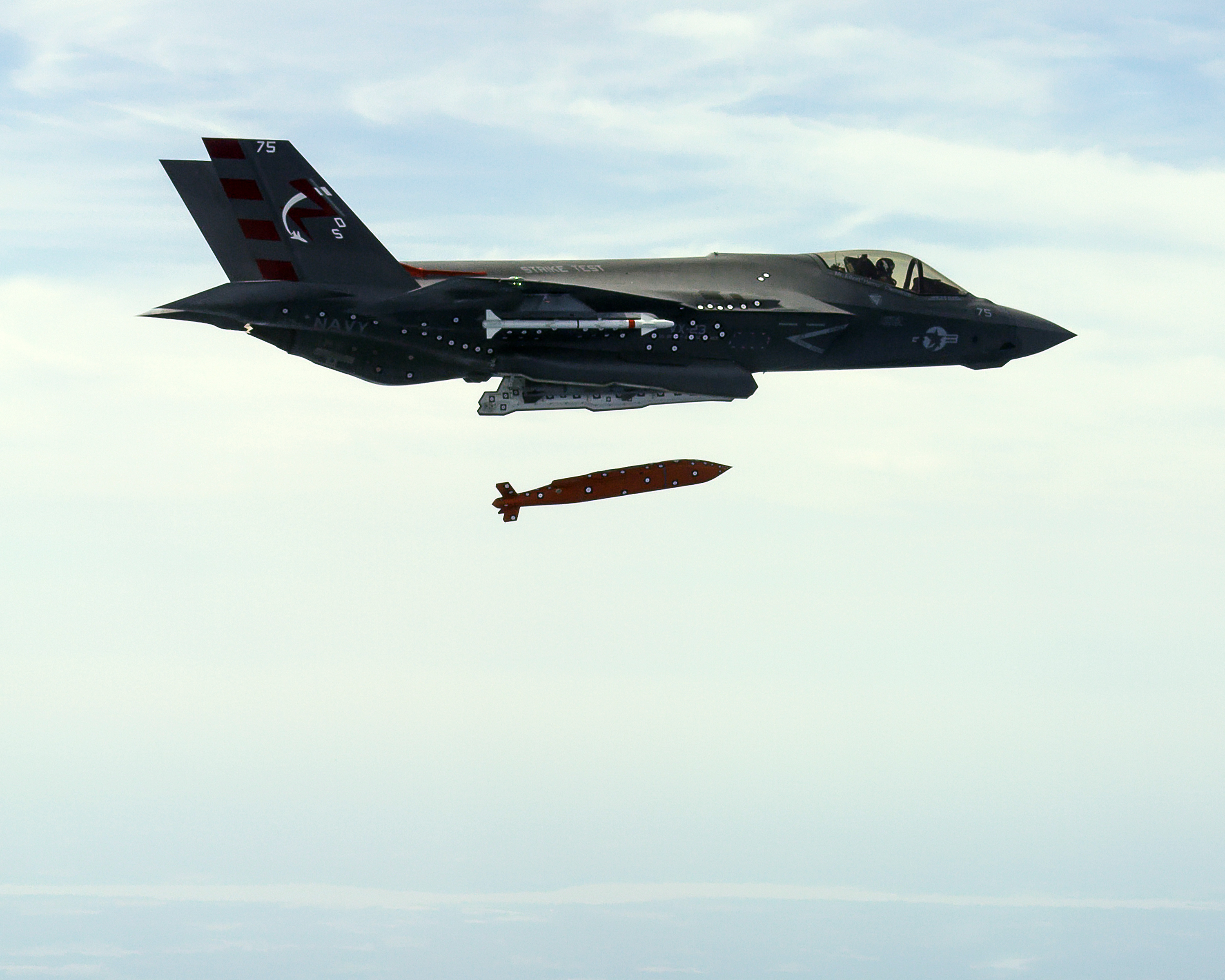 160323-N-ZZ999-110 NAVAL AIR STATION PATUXENT RIVER, Md. (March 23, 2016) An F-35C Lighting II test aircraft piloted by Cmdr. Theodore Dyckman conducts the first separation of an AGM-154 Joint Stand-Off Weapon (JSOW) from an F-35 Joint Strike Fighter. (U.S. Navy photo by Dane Wiedmann/Released)